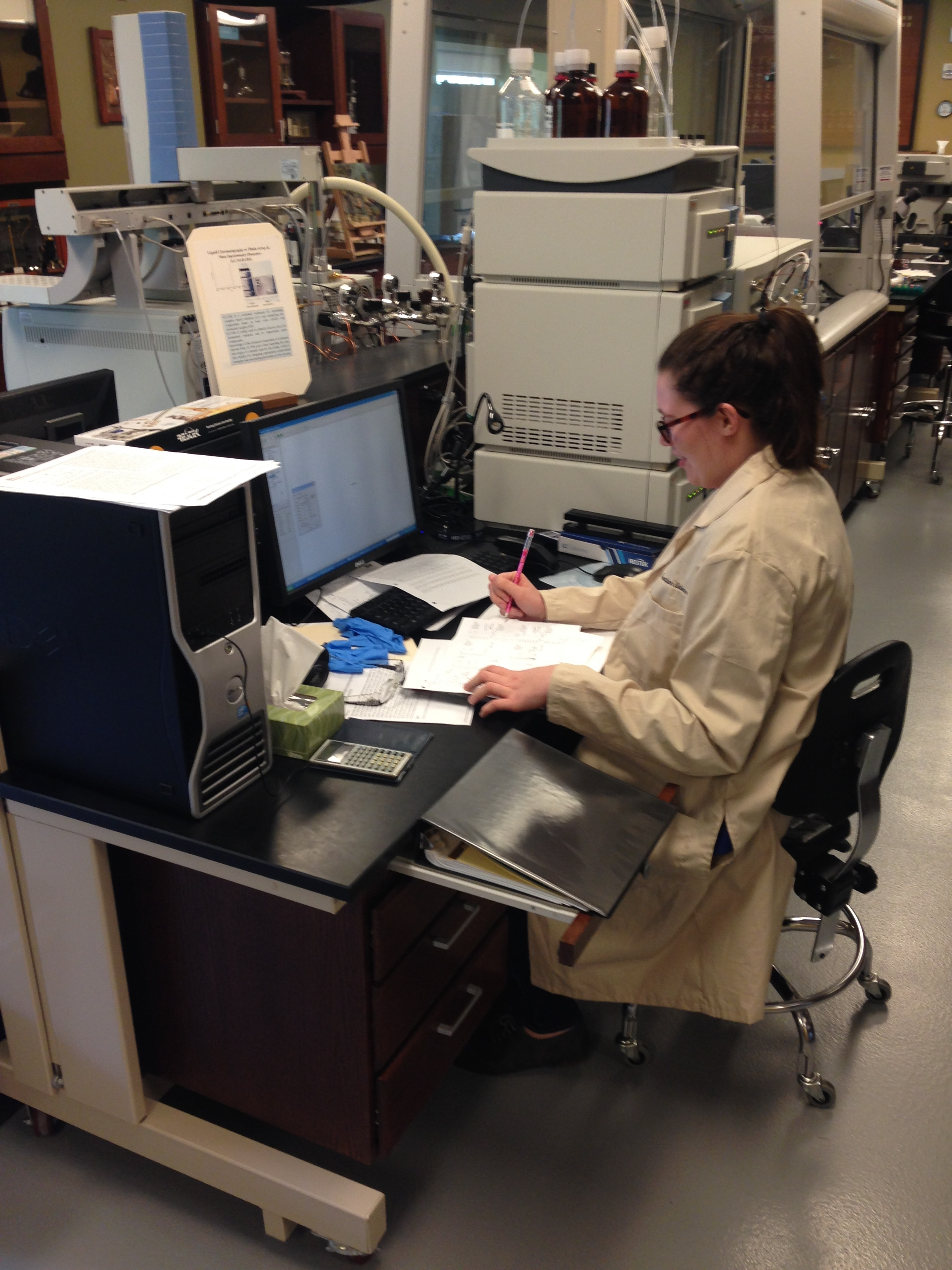 IMA Conservation Scientist using a High-performance liquid chromatography machine.